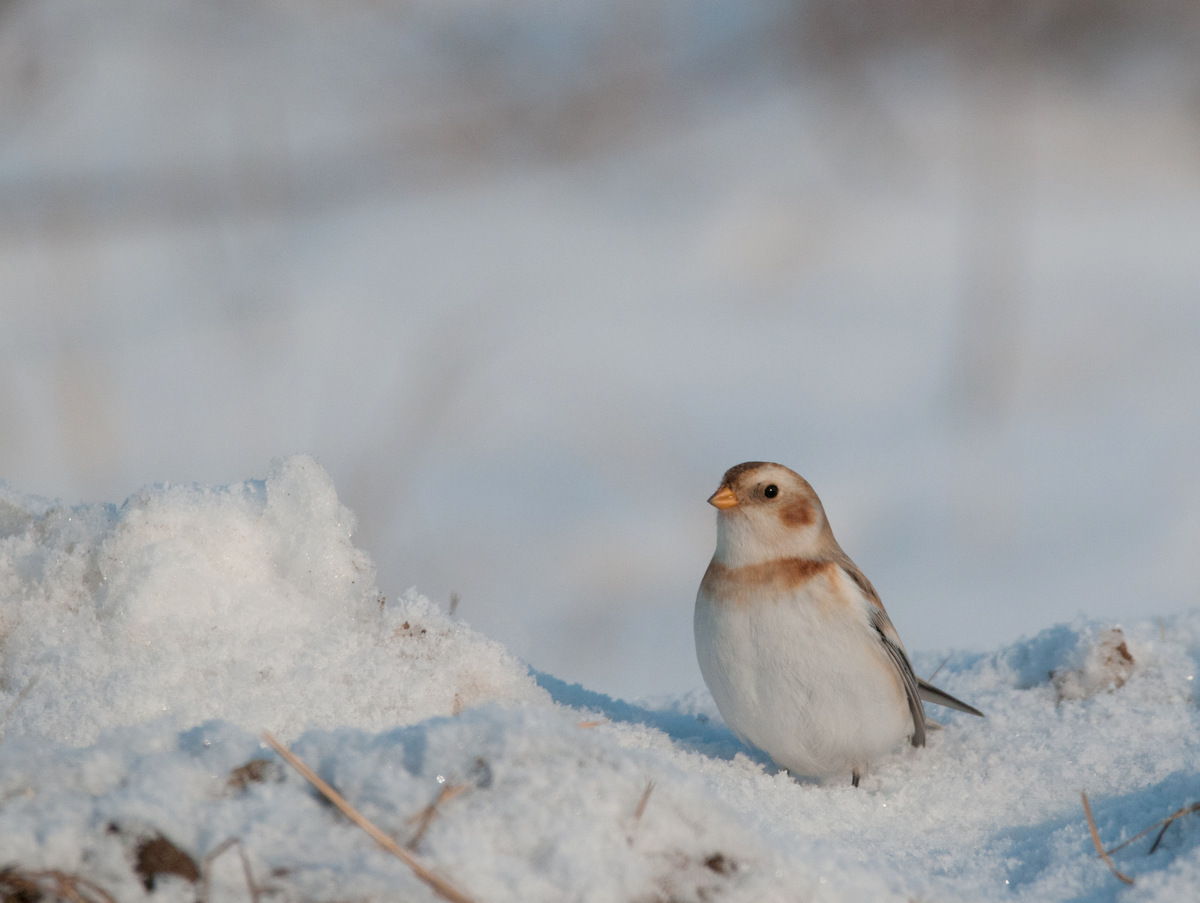 Snow bunting chilling in the snow. Credit: USFWS